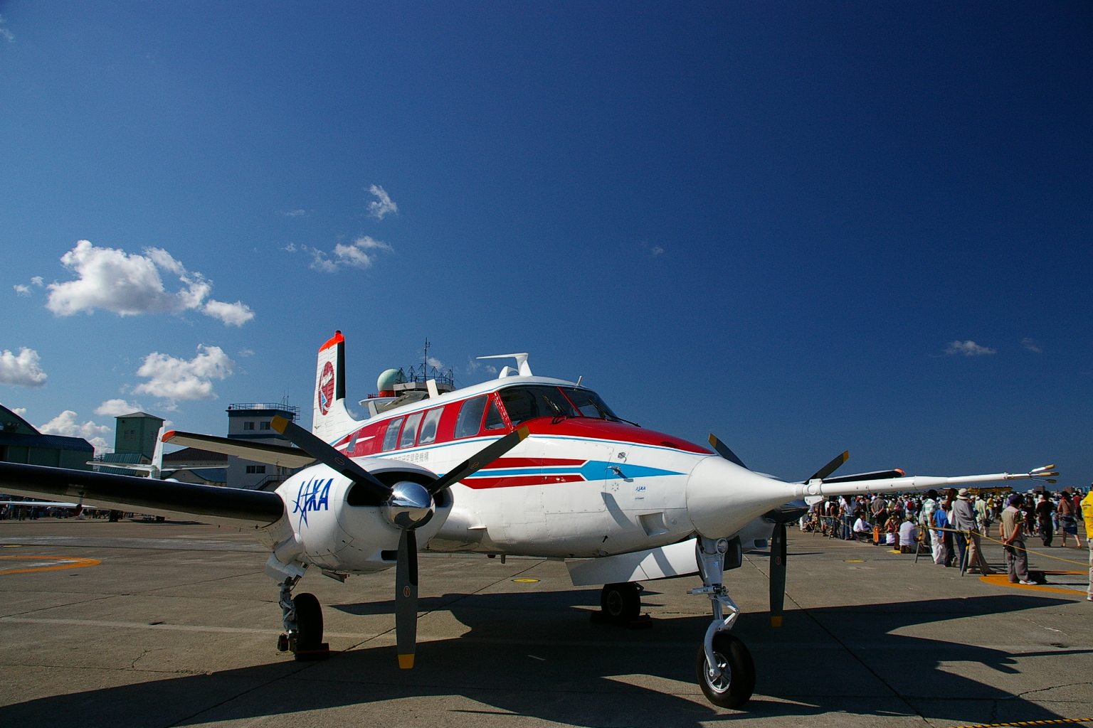 Beechcraft B65 Queen Air by JAXA.